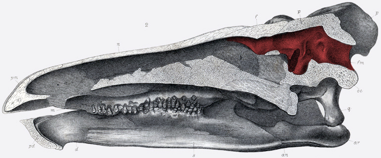 Brain cavity of Stegosaurus stenops (holotype USNM 4934)[1] marked with red. Funded by the U.S. Geological Survey.